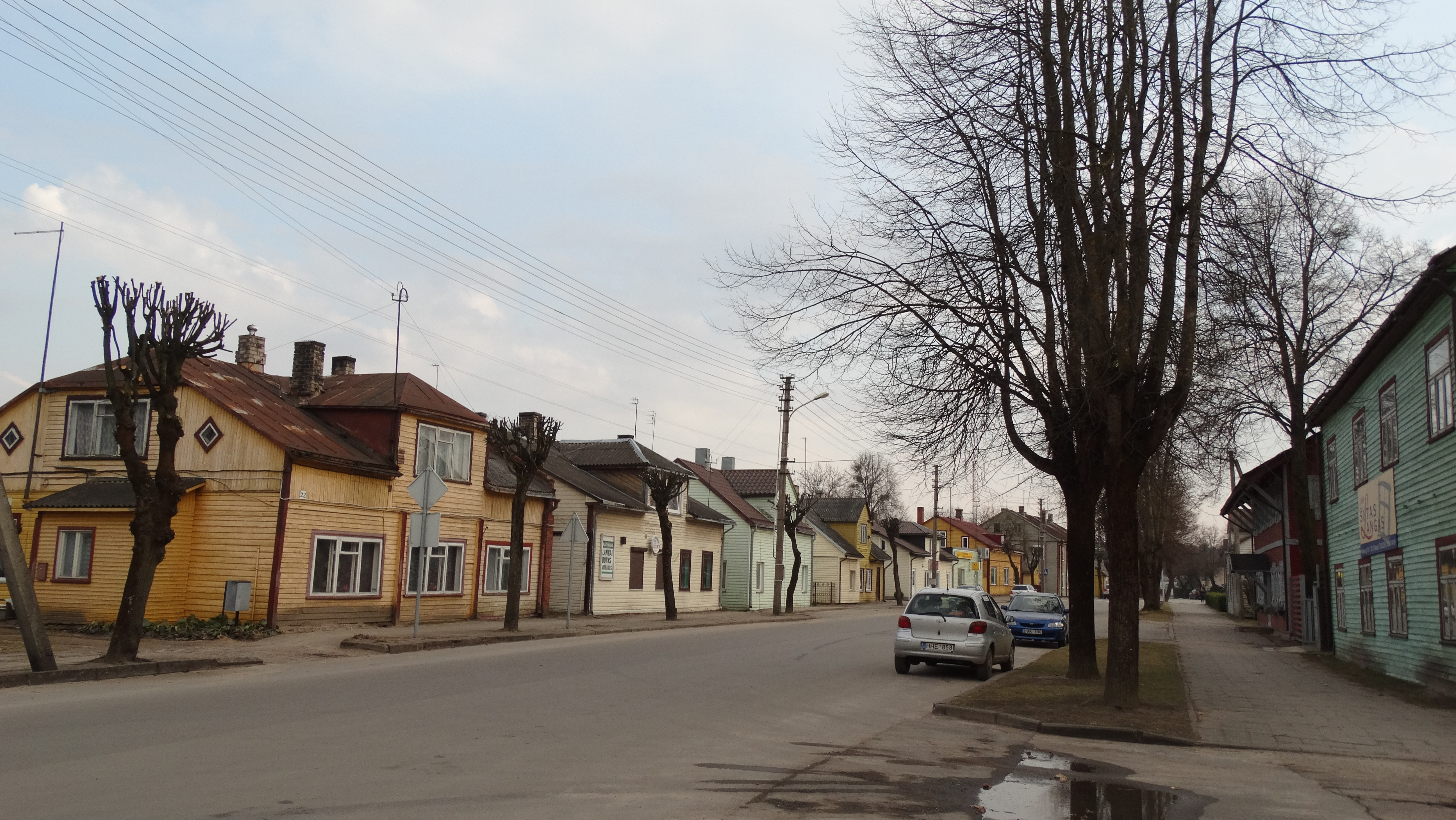 Kazlų Rūda, Lithuania